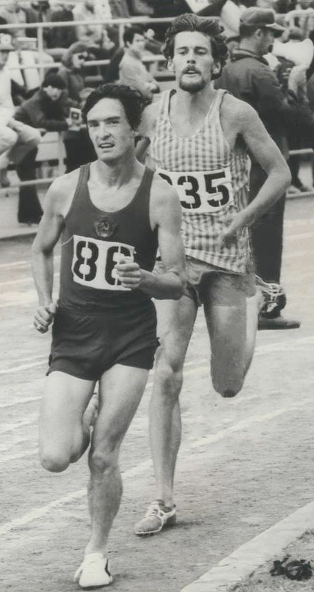 1971 Press Photo Gerry Lindgren holder of US record defeated Ken Moore in track